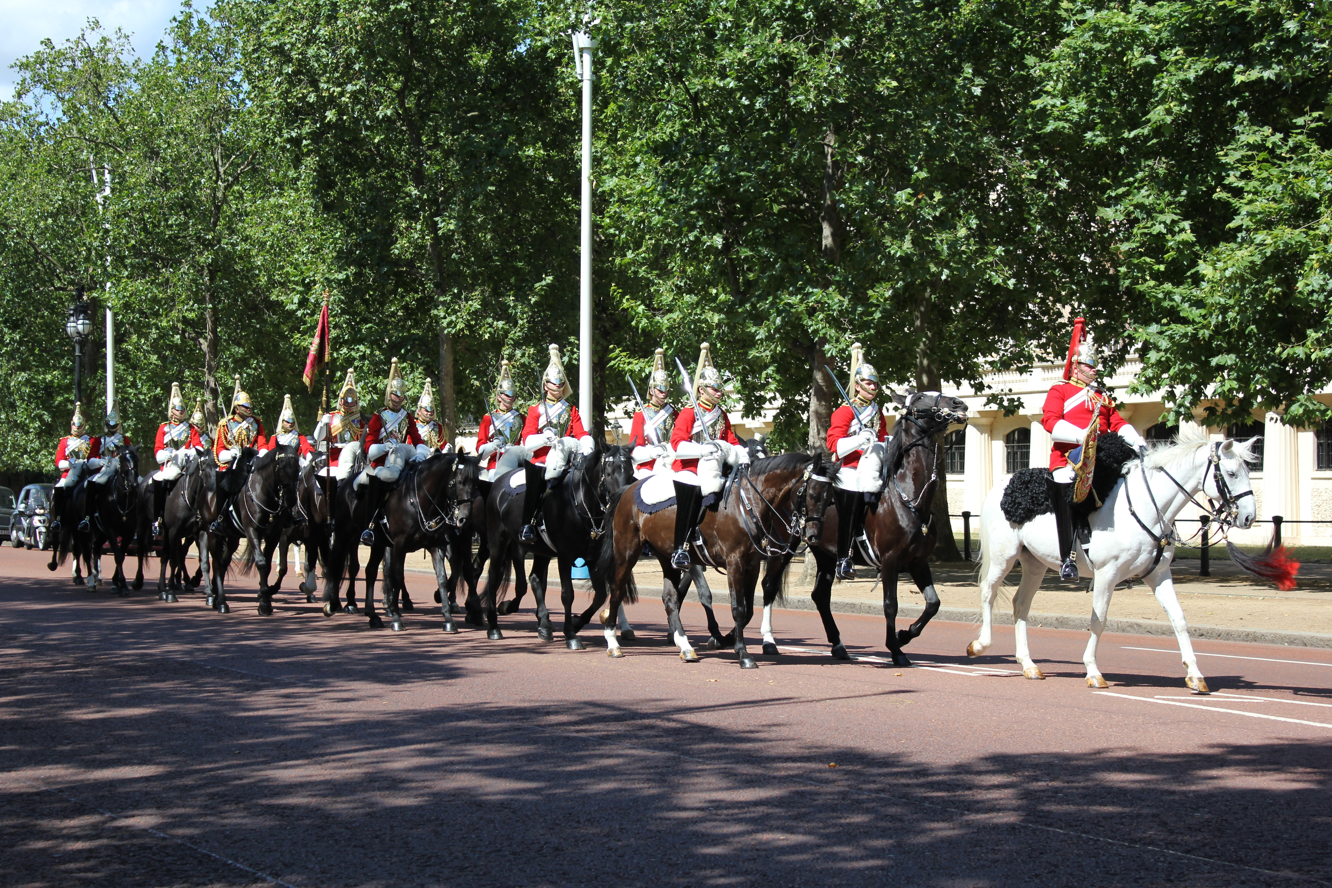 Soldiers of the Life Guards in London